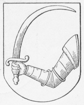 Coat of arms of Slavs Herred (Hundred), a former administrative subdivision of Denmark, 1648 version. Illustration from the article Om danske By- og Herredsvaaben written by Anders Thiset and published in Tidsskrift for Kunstindustri 1893-1894.